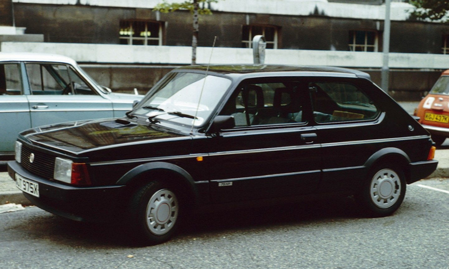 Fiat 127 final iteration